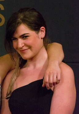 Anne Emond at the 2012 Genie Awards